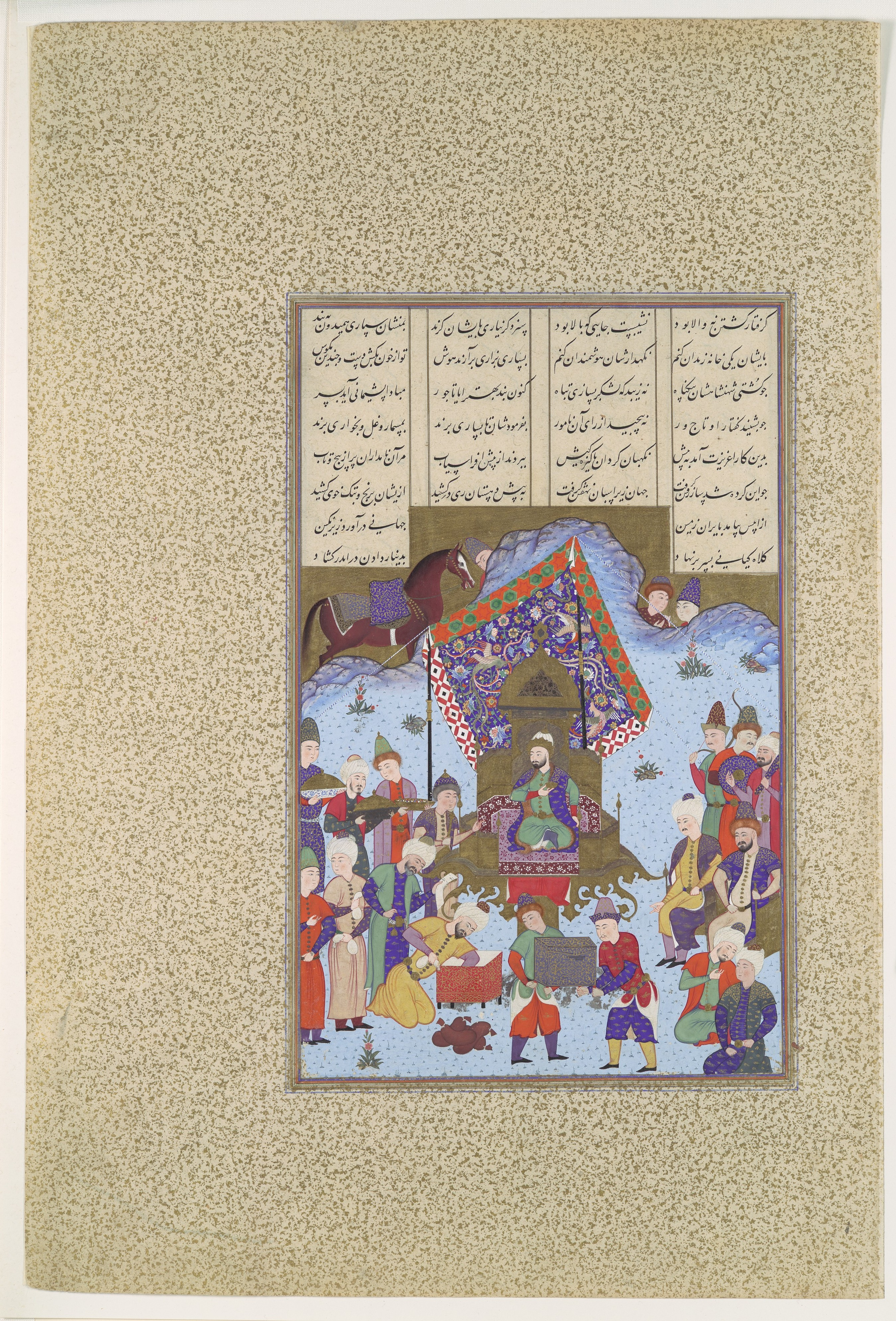 Folio from an illustrated manuscript; Codices